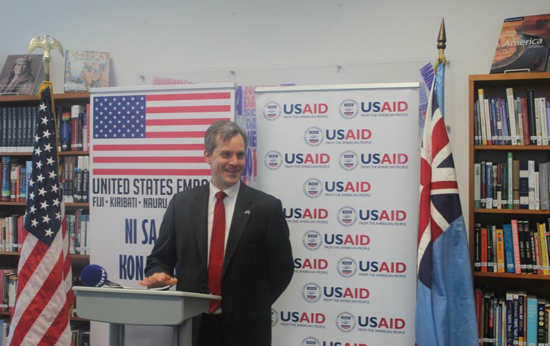 Ambassador Cella speaks to the Press, regarding the COVID-19 funds